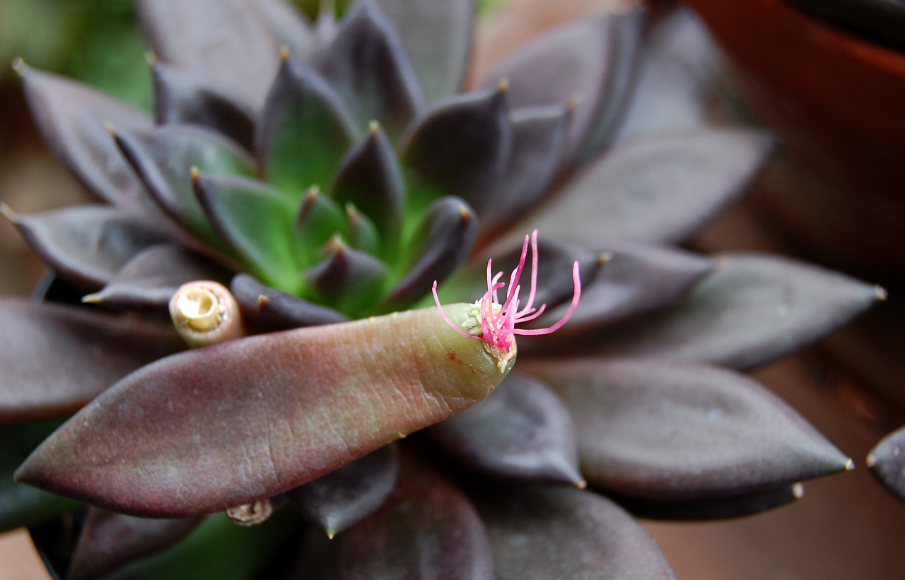 Echeveria affinis